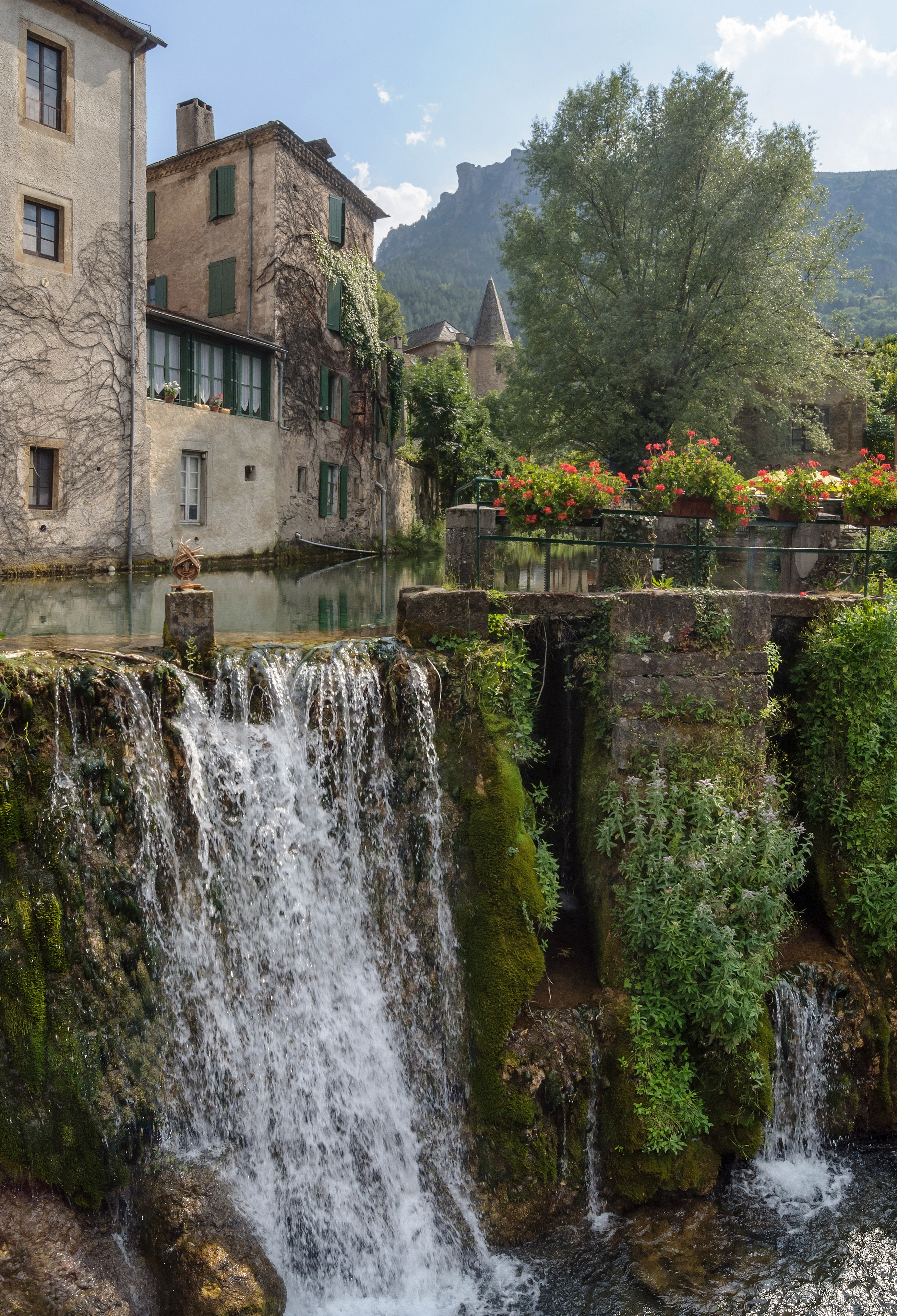 The Vibron river in Florac, Lozère, France.